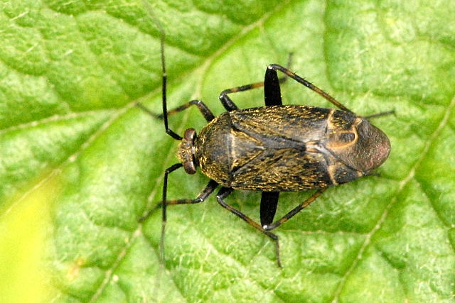 Psallus ambiguus from Commanster, Belgian High Ardennes .